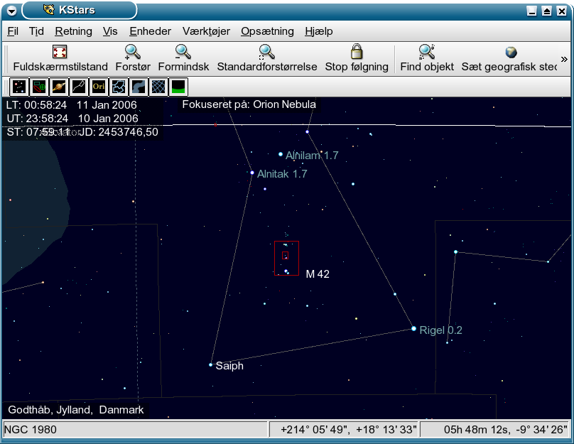 Example of KStar planetary SW under Linux/KDE. The menu text is in Danish.